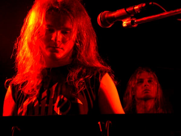 Spectre and Bacchus from Darzamat at Relax club in 2005.